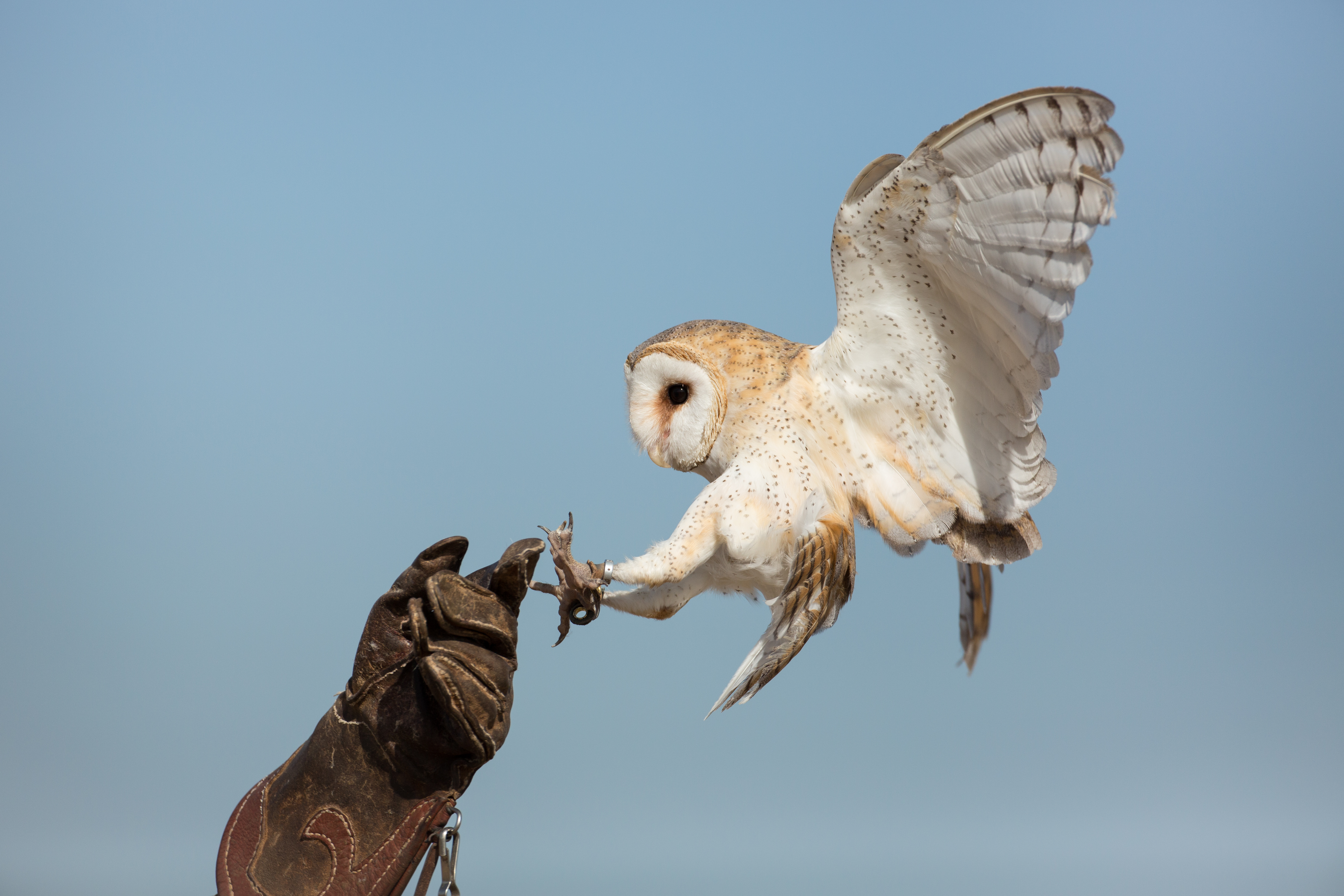 A barn owl (Tyto alba) just about to pose on the falconer's hand.